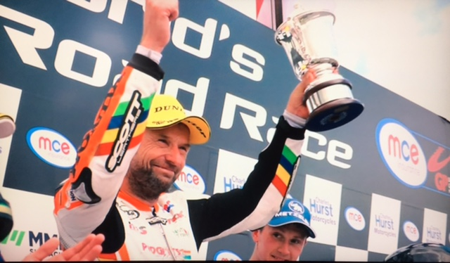 Bruce Anstey celebrates victory at the 2017 Ulster Grand Prix.